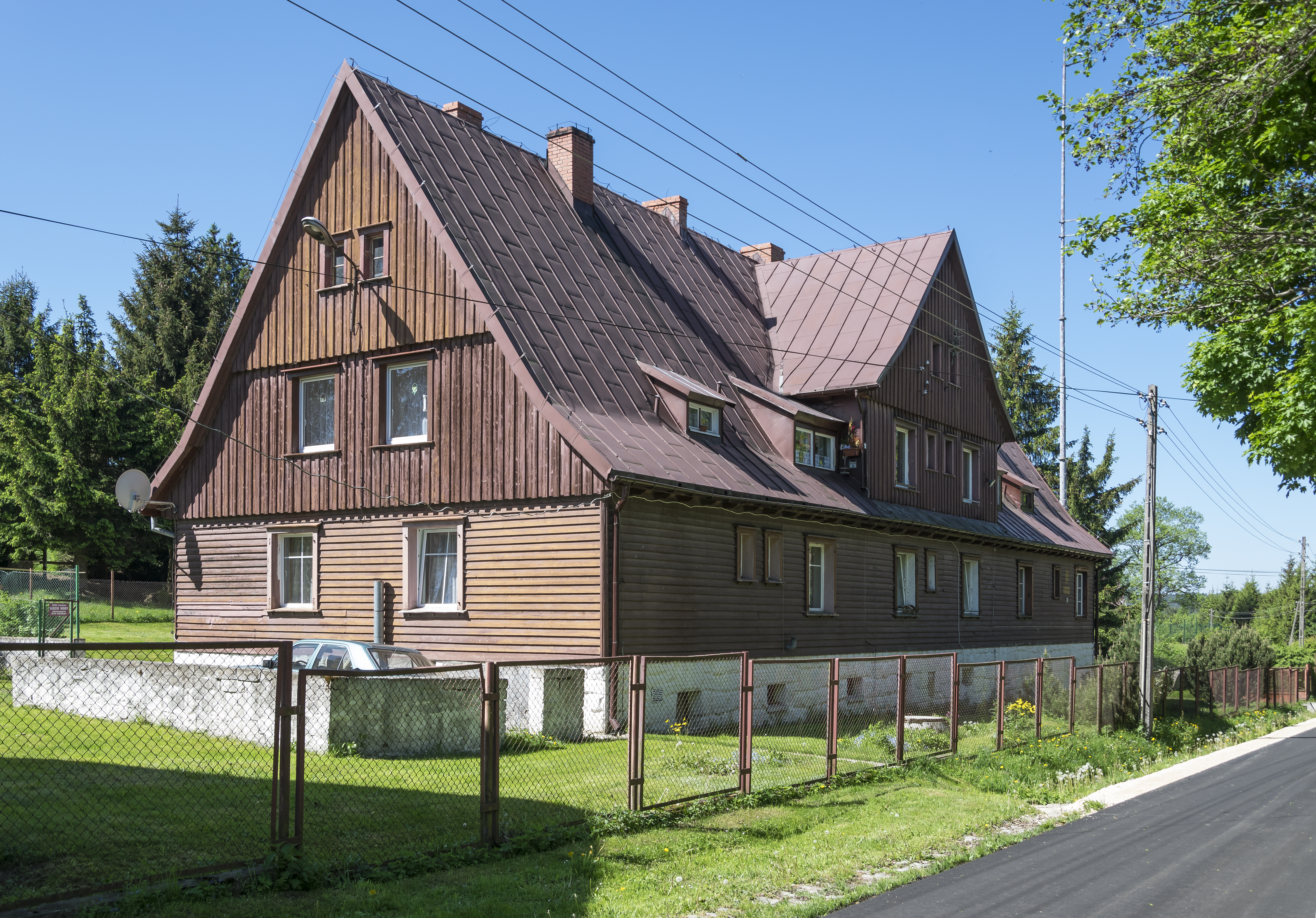 Former WOP watchtower in Lesica